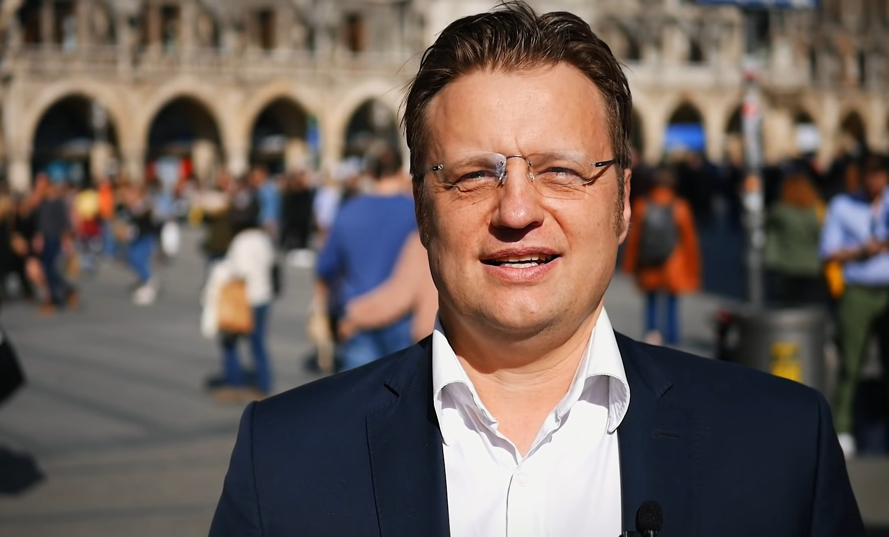 Gerd Mannes auf der Demonstration gegen den EU-Uploadfilter in München